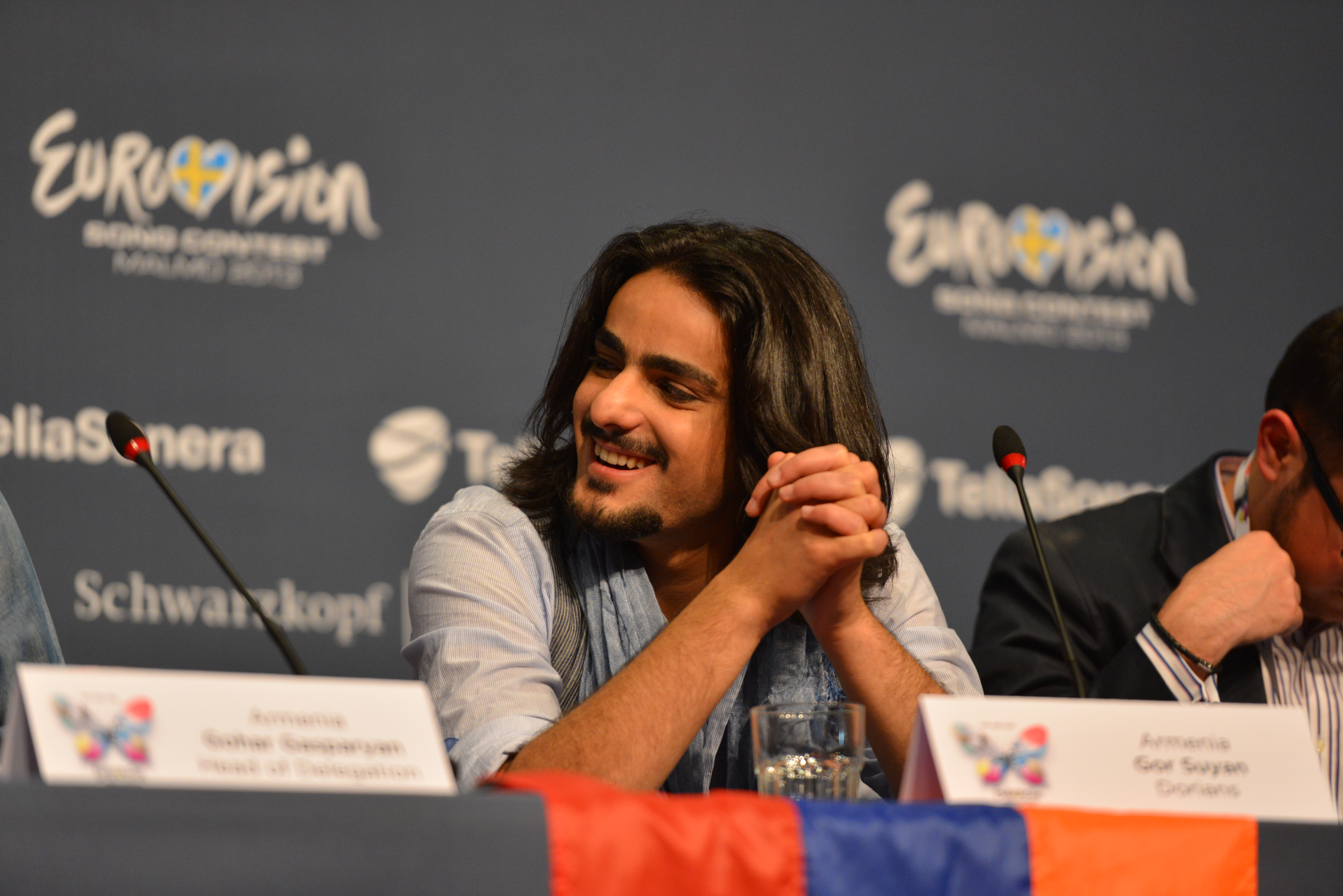 Gor Sujyan from Dorians at a press conference during the Eurovision Song Contest 2013 in Malmö. (Help translate this text)